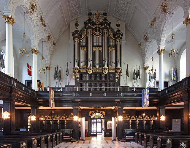 St Clement Danes, Strand, London WC2 - West end organ